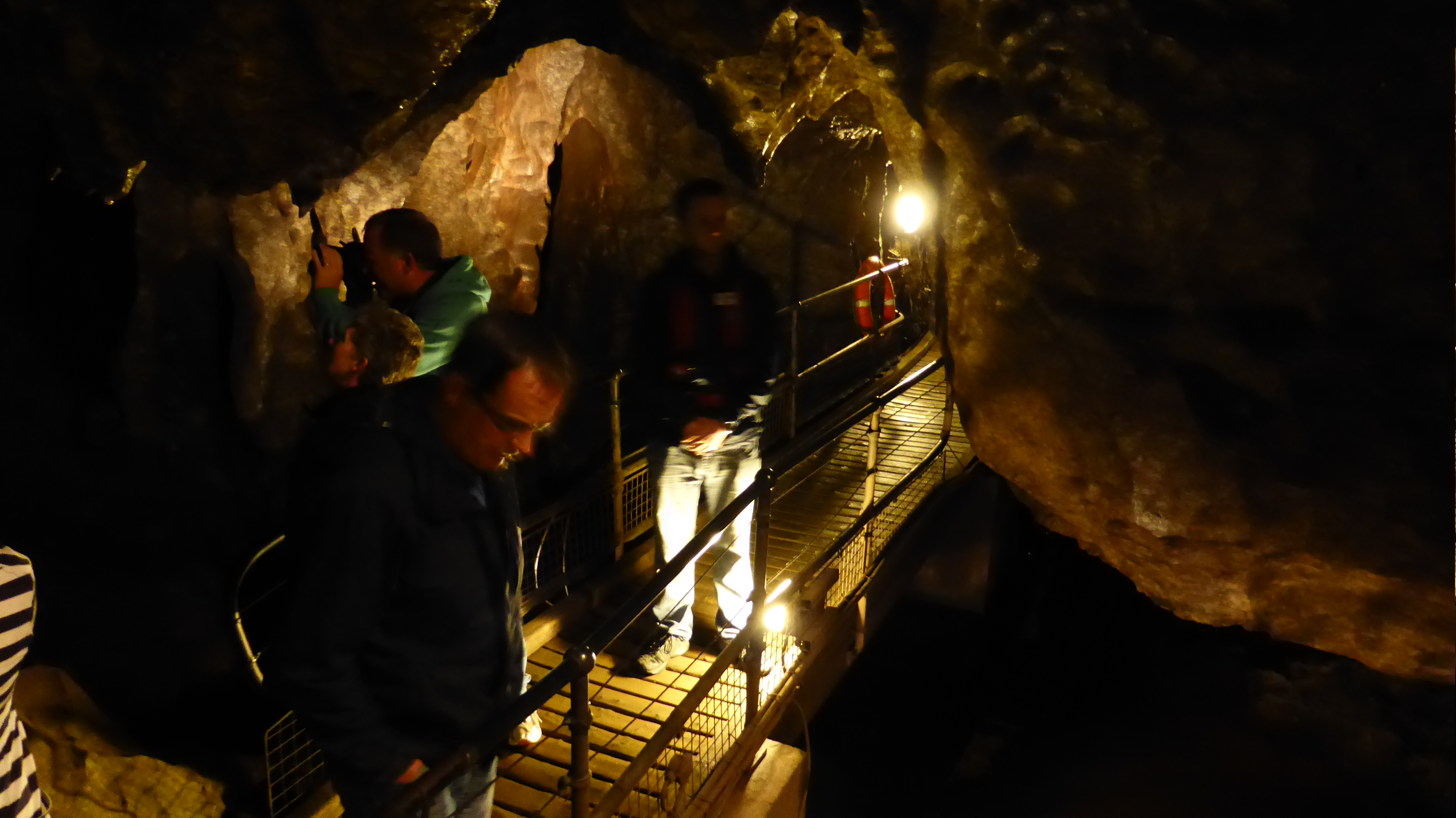 Marble Arch Caves in Fermanagh